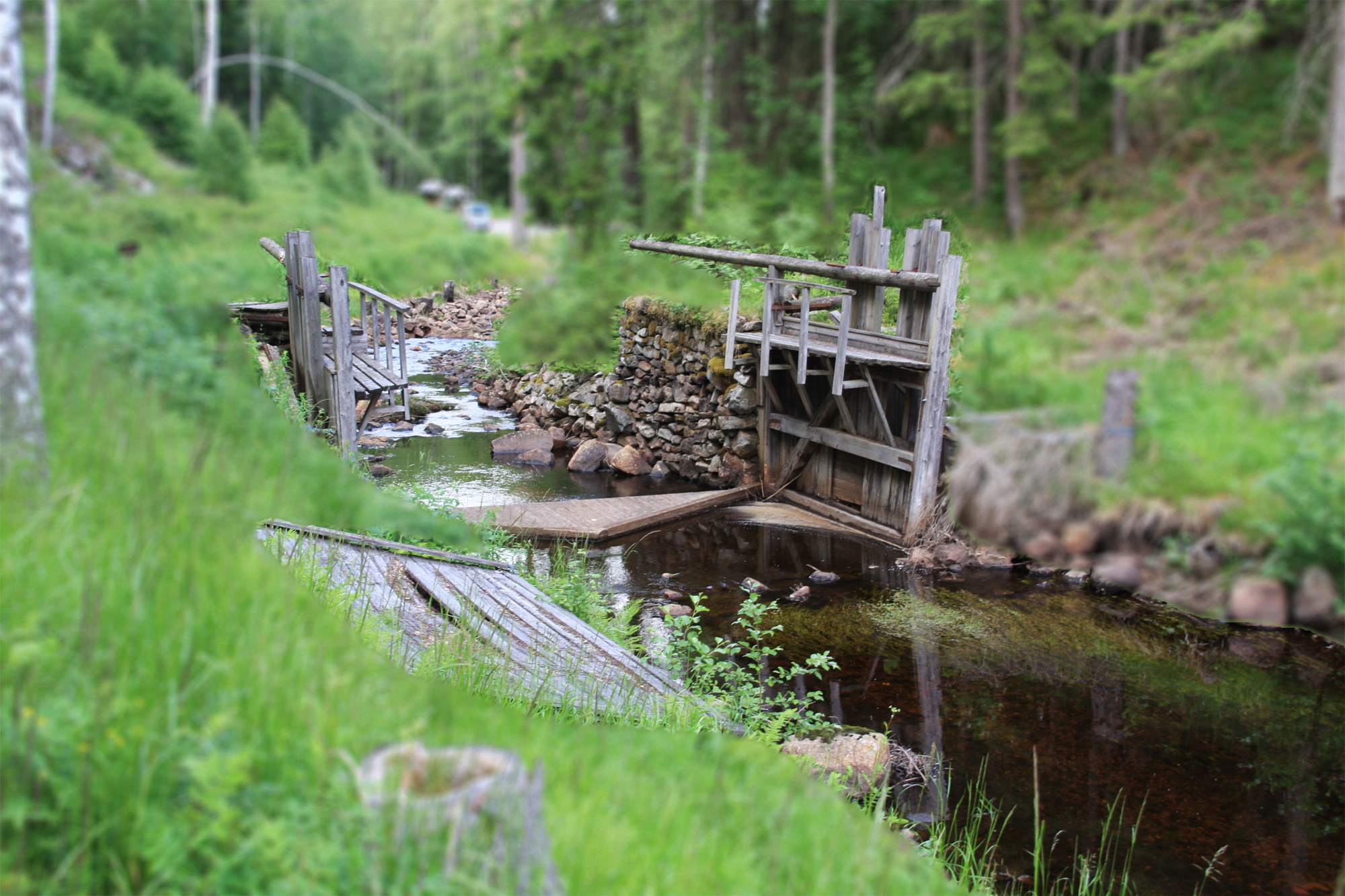 The Soot Canal - picture of old Lock (water transport)